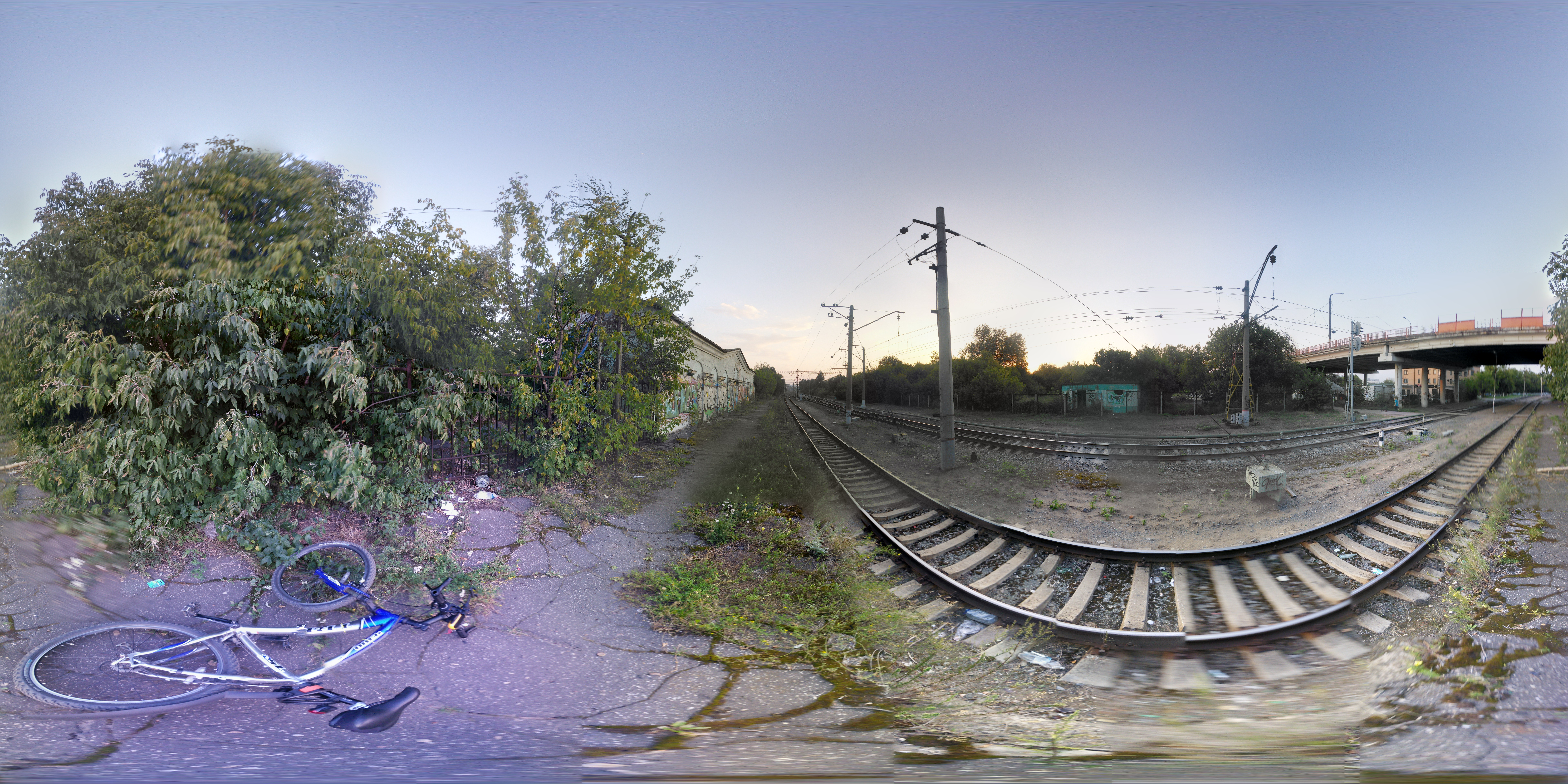 Abandoned platform Malchiki. Lubercy city, railway line Lubertsy2 - Dzerzinskiy. Since 1996 passenger service abandoned due to useless route, platforms are disused. Line still used to freight traffic with mainline electric locomotives, to Yanichkino station.